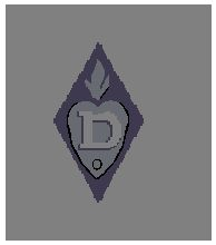 Hallmark by Pierre Gabriel Germain Dutalis 1798-1814